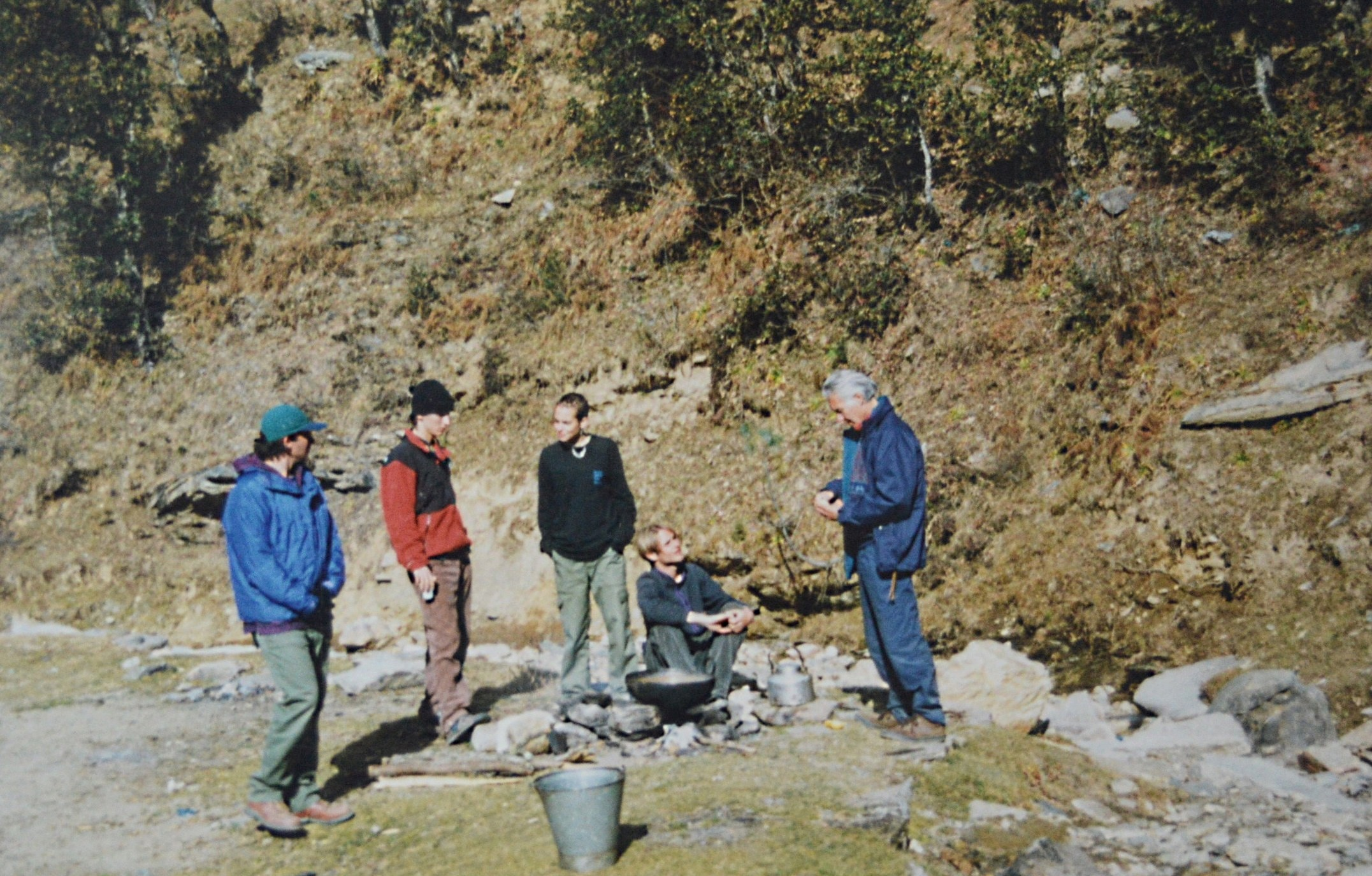 Photo by R S Pirta